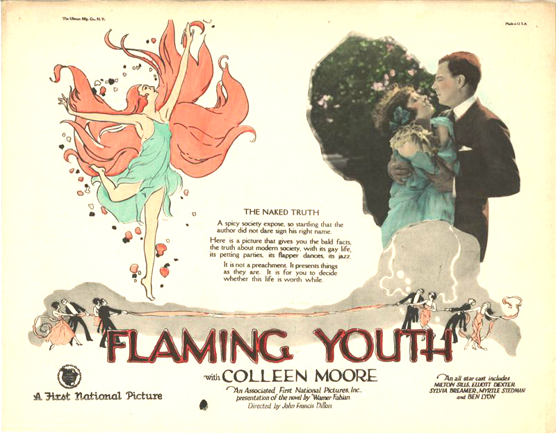 Lobby card for the American film Flaming Youth (1923) with Colleen Moore and Milton Sills.